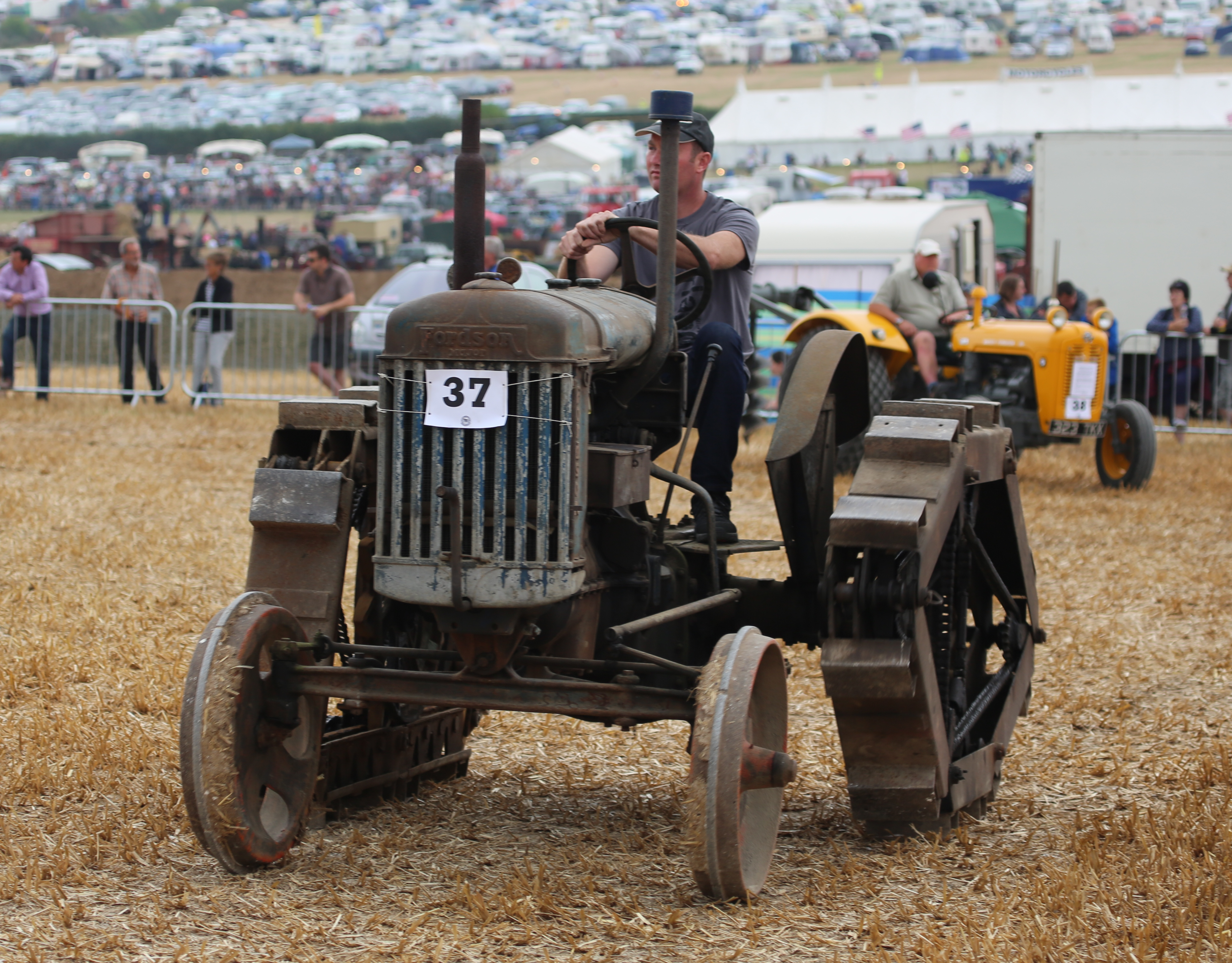 Photo of a 1945 Fordson E27N fitted with rotopad tracks